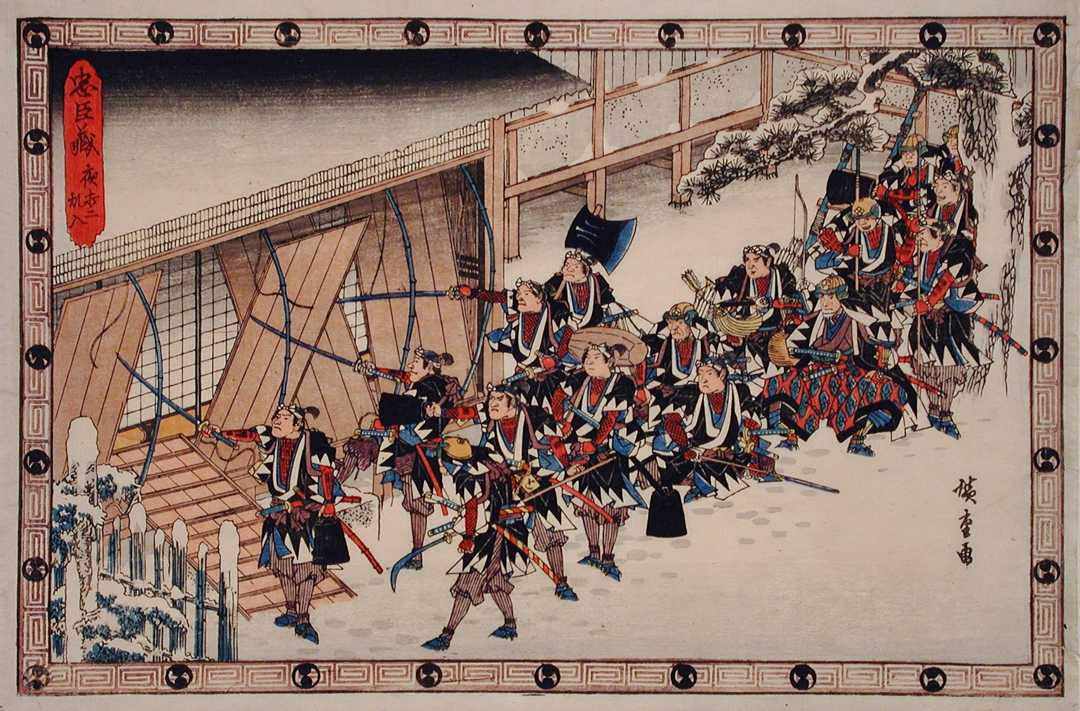 Japan, circa 1835-1839 Series: The Storehouse of Loyal Retainers Prints; woodcuts Color woodblock print Image: 9 1/4 x 14 1/4 in. (23.5 x 36.1 cm); Sheet: 10 1/8 x 14 13/16 in. (25.6 x 37.6 cm) Gift of Dr. Harvey Eagleson (M.66.35.57) Japanese Art